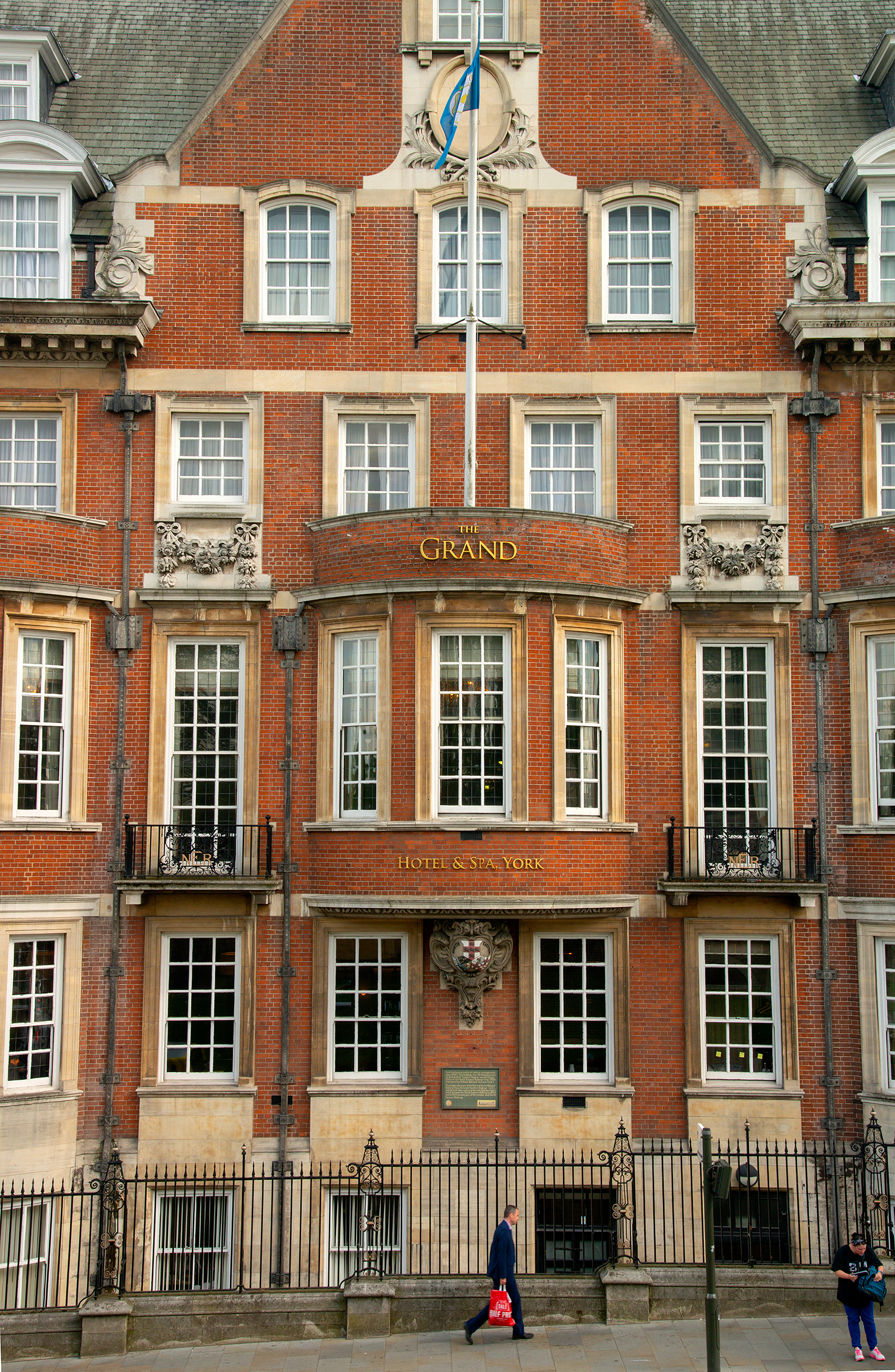 The Grand Hotel & Spa, viewed from the wall